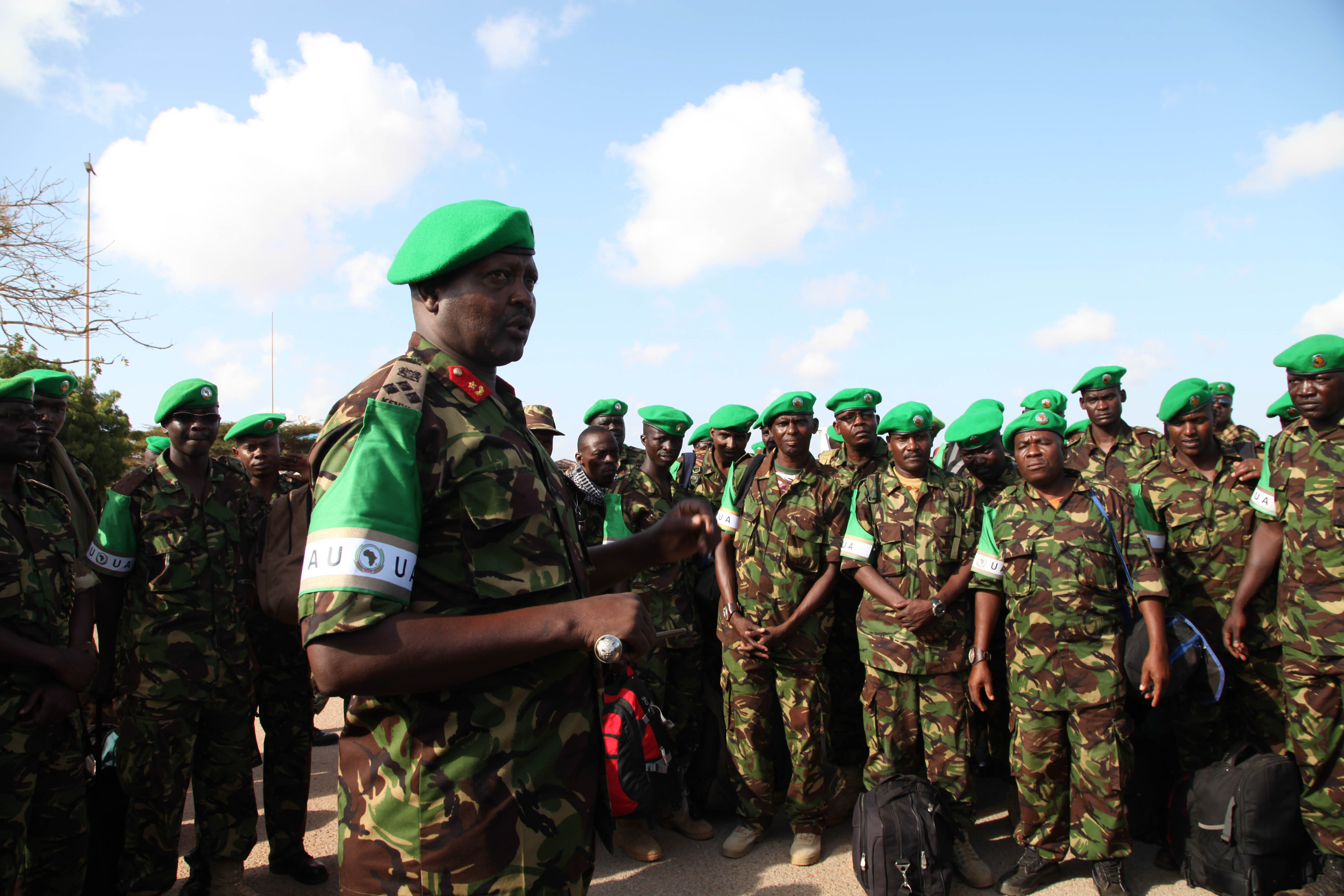 KDF Sector Two commander, Brig. General Walter Raria, gives a farewell speech to the soldiers during their rotation in Kismayo, Somalia, on December 9. The troops have served in the southern city of Kismayo for over one year now, as part of the African Union Mission in Somalia. AMISOM Photo/ Awil Abukar